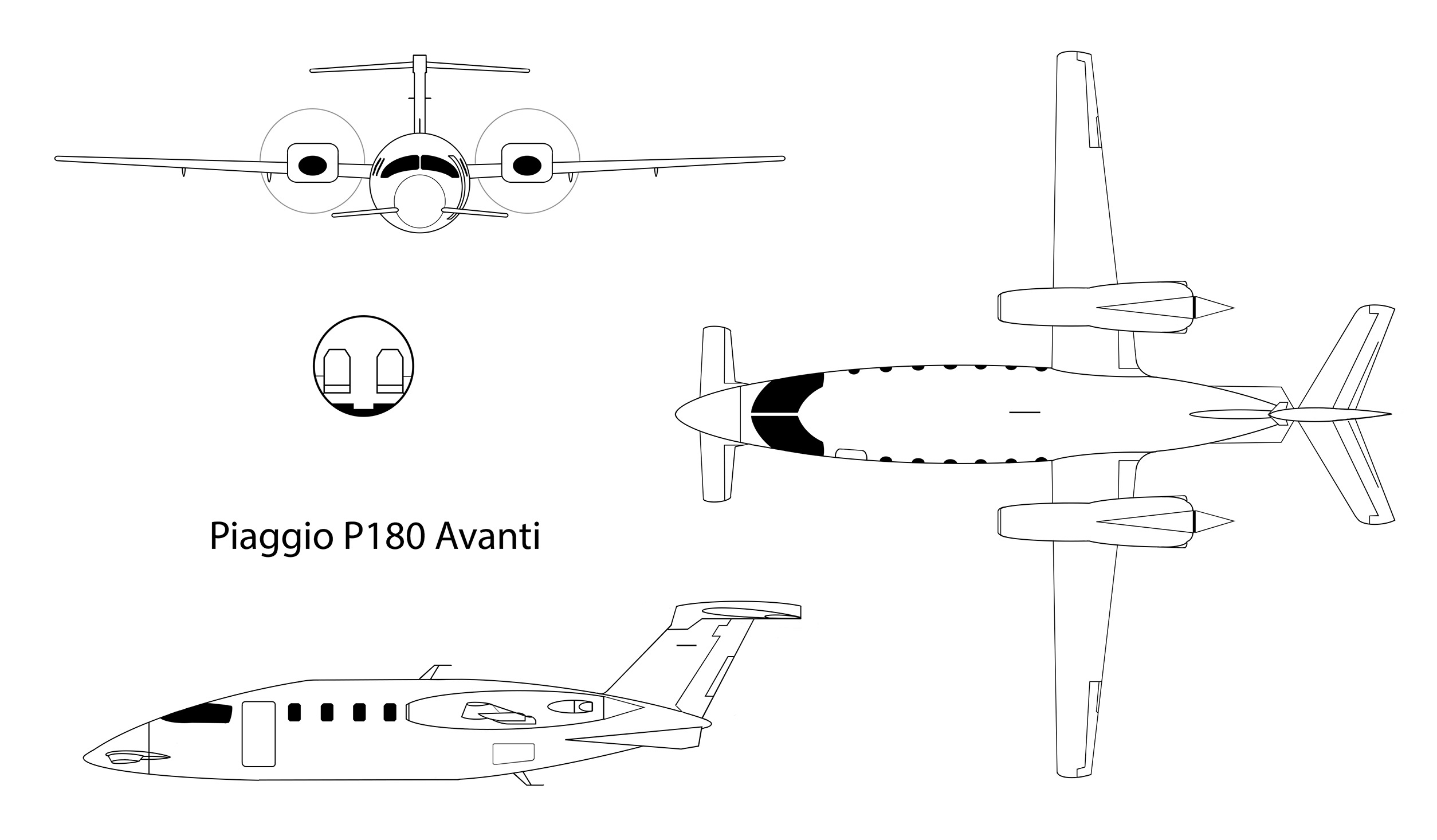 Piaggio P180 Avanti perspective tables.